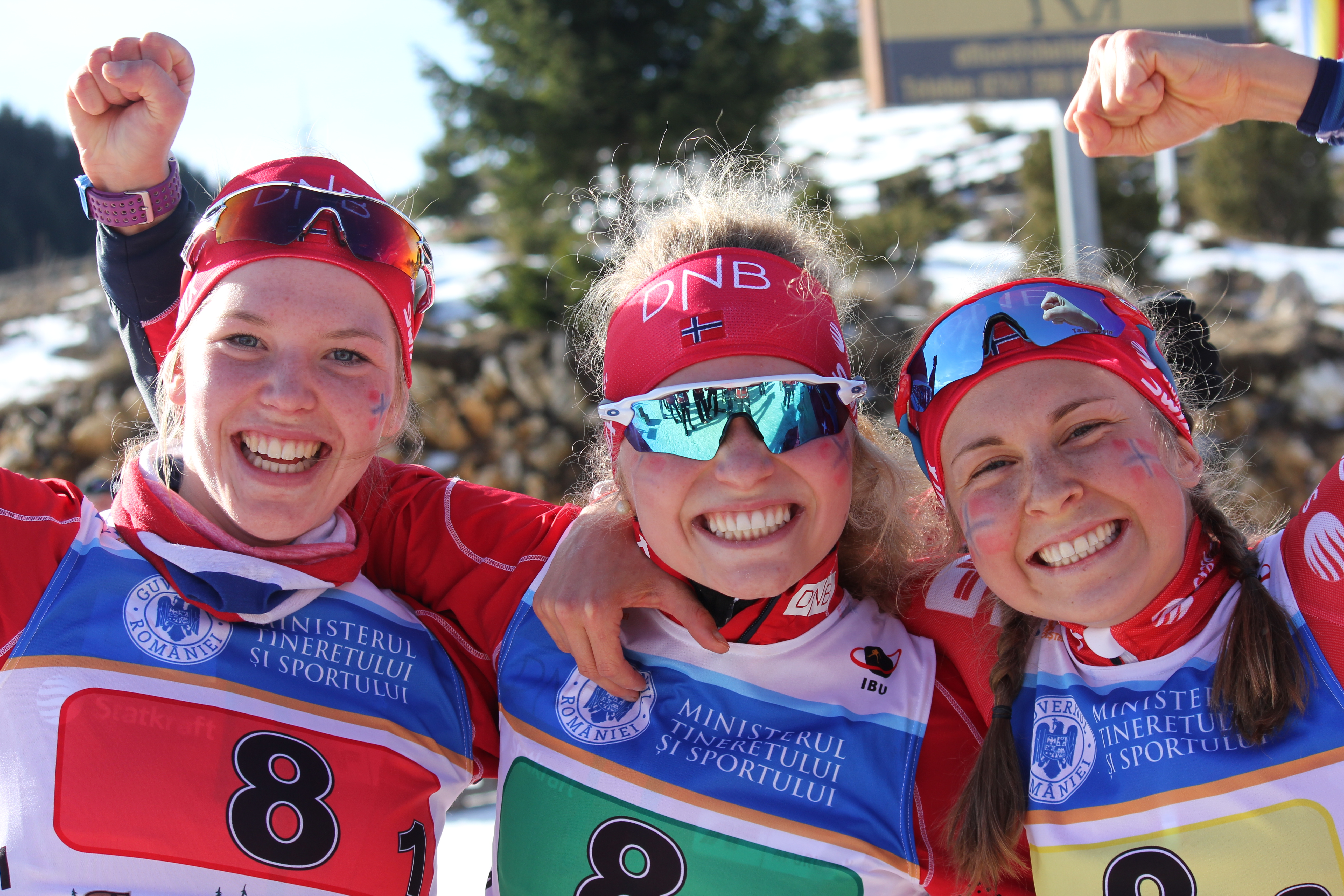 From left: Anne Marit Bredalen, Turi Storstrøm Thoresen, Ingrid Landmark Tandrevold, winning relay gold in the junior class in the Biathlon Junior World Championships 2016.